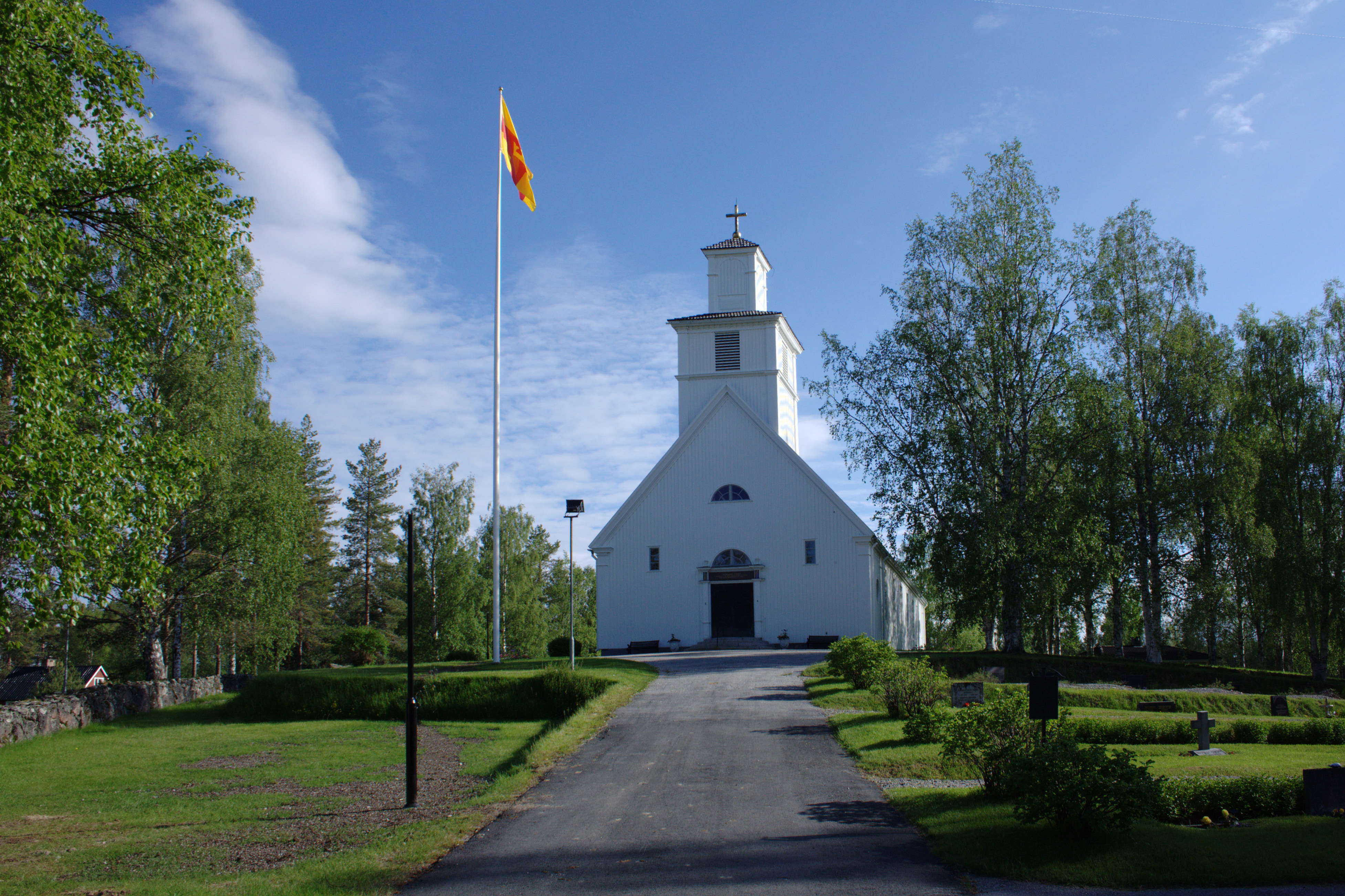 Björksele church